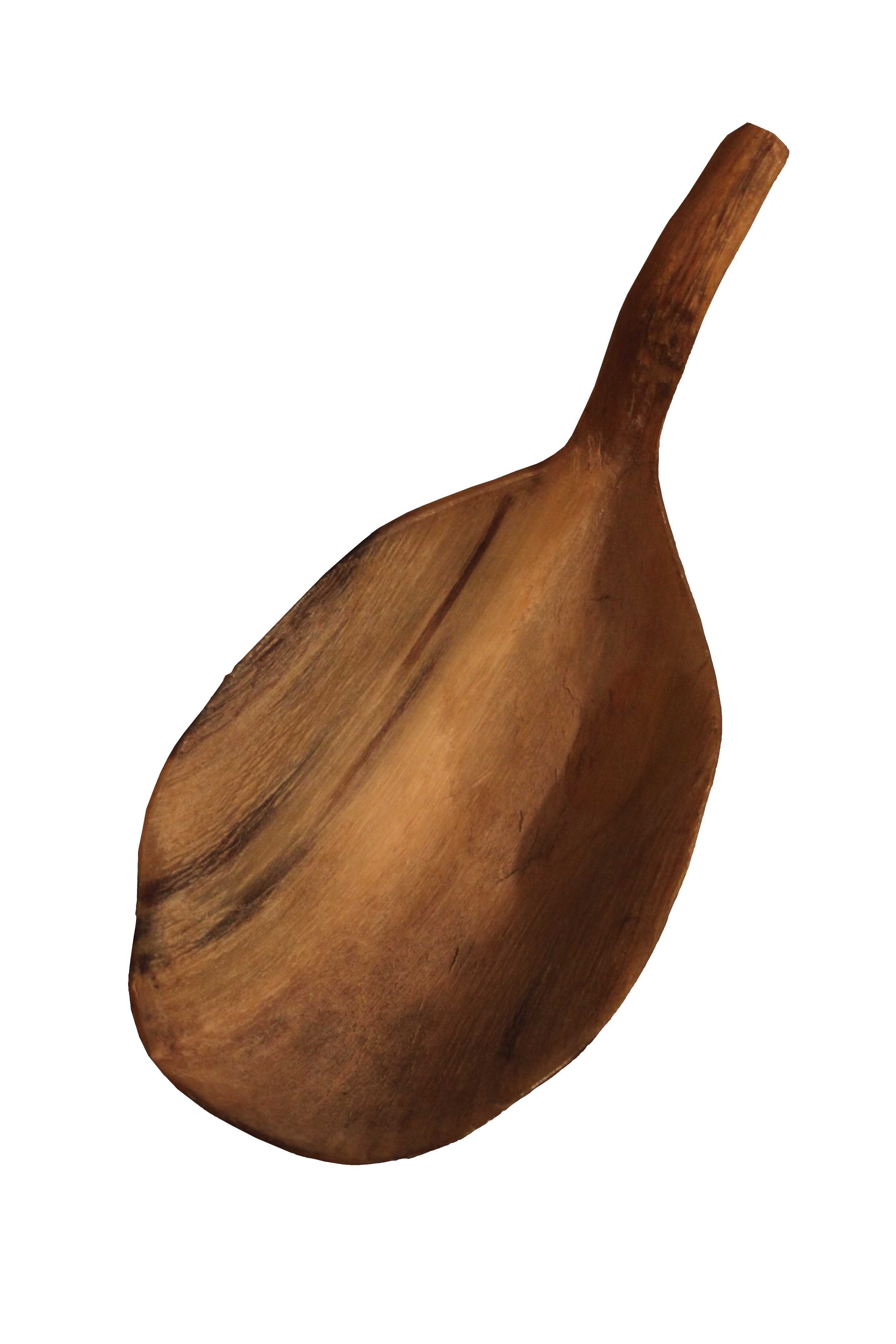 Hunkpapa Lakota spoon. Animal horn, late 19th century, Standing Rock reservation. Belonged to chief One-Bull, collection of Reginald and Gladys Laubin. On display at Spurlock Museum, Urbana-Champaign. Accession number 1996.24.0190.